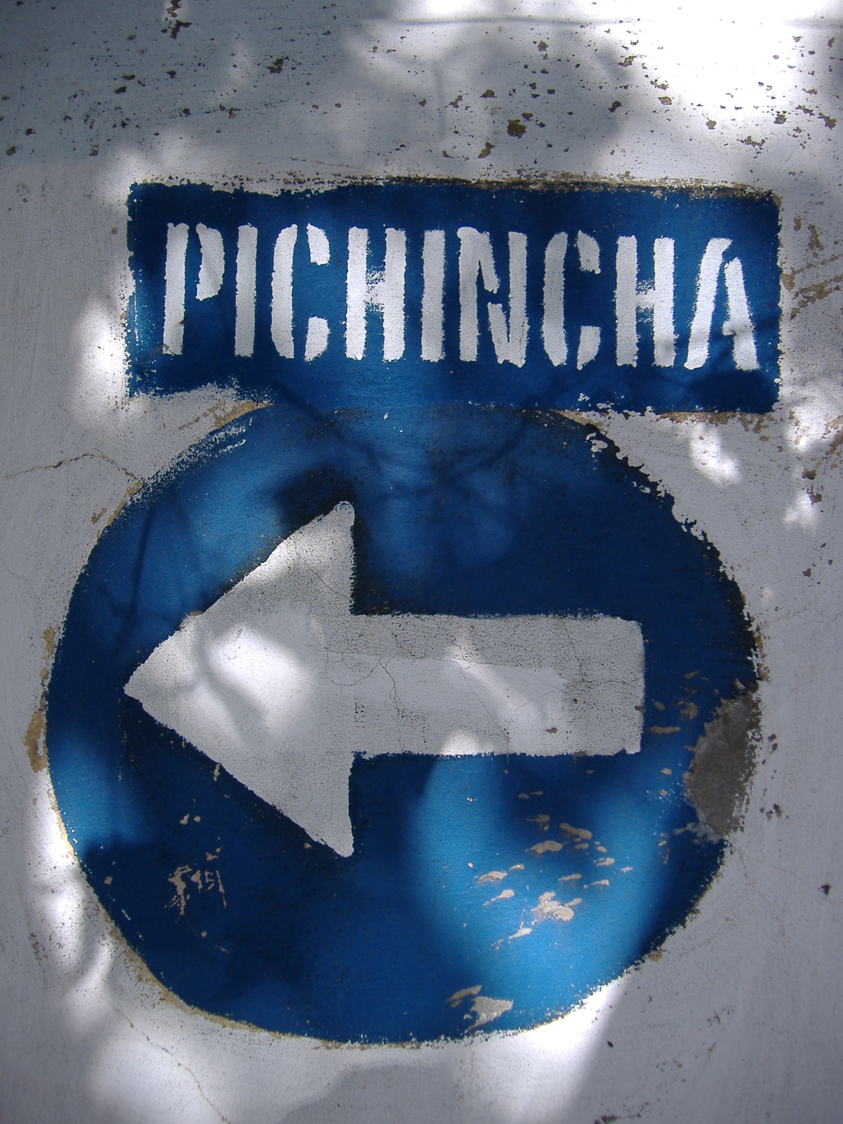 A sign for Pichincha St. in Rosario, Argentina. Pichincha was the original name of this street and the neighbourhood (barrio). The street was renamed to Ricchieri St. after Pablo Ricchieri, a Minister of War, but the name was restored in the 2000s as the barrio was restored with a retro look. This picture was taken by Pablo D. Flores on 11 March 2006.